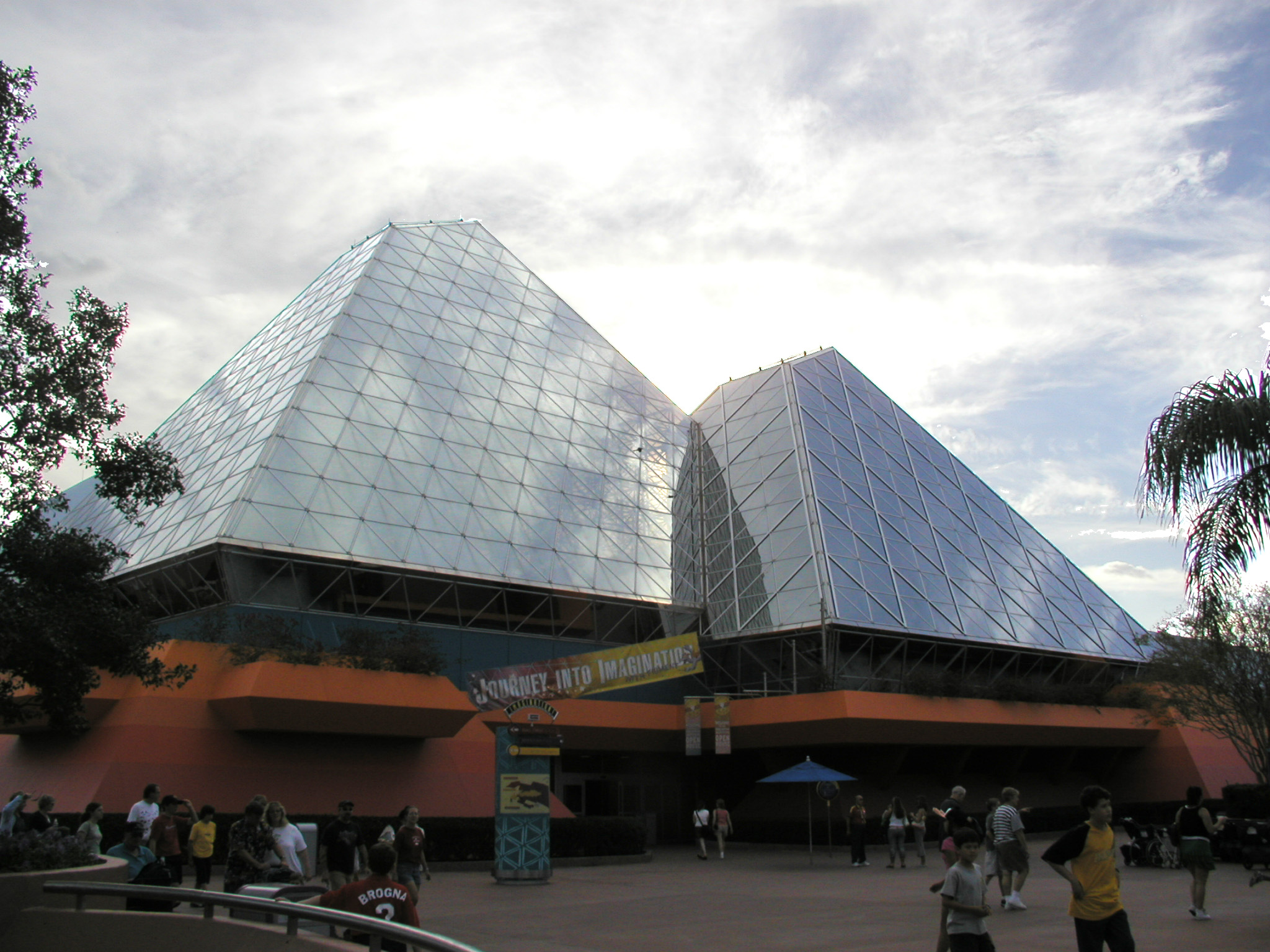 The Imagination! pavilion at Epcot in Walt Disney World.